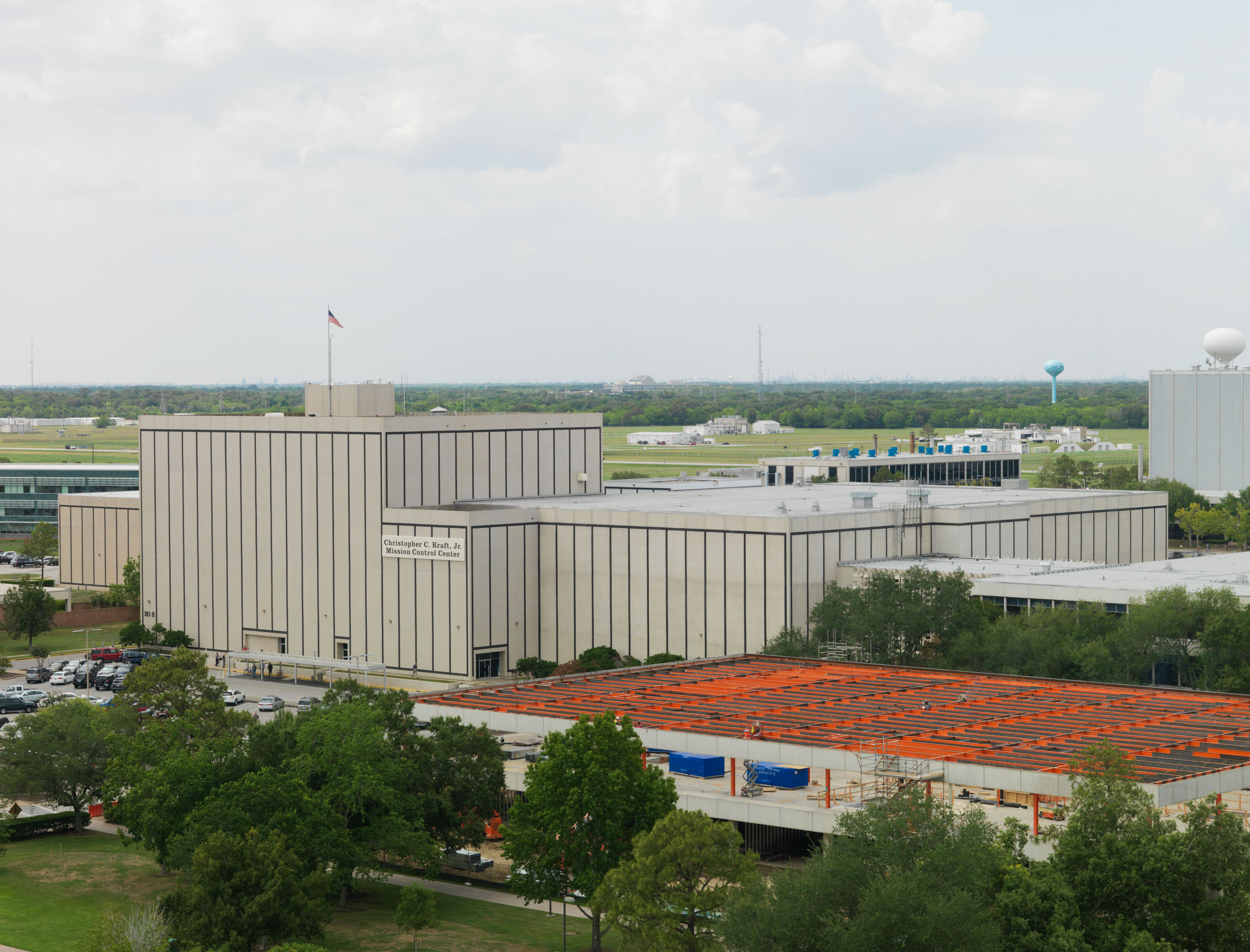 This is a wide angle image of Building 30, the Christopher Kraft Mission Control Center at the Johnson Space Center, Houston Texas. Photo credit NASA, James Blair